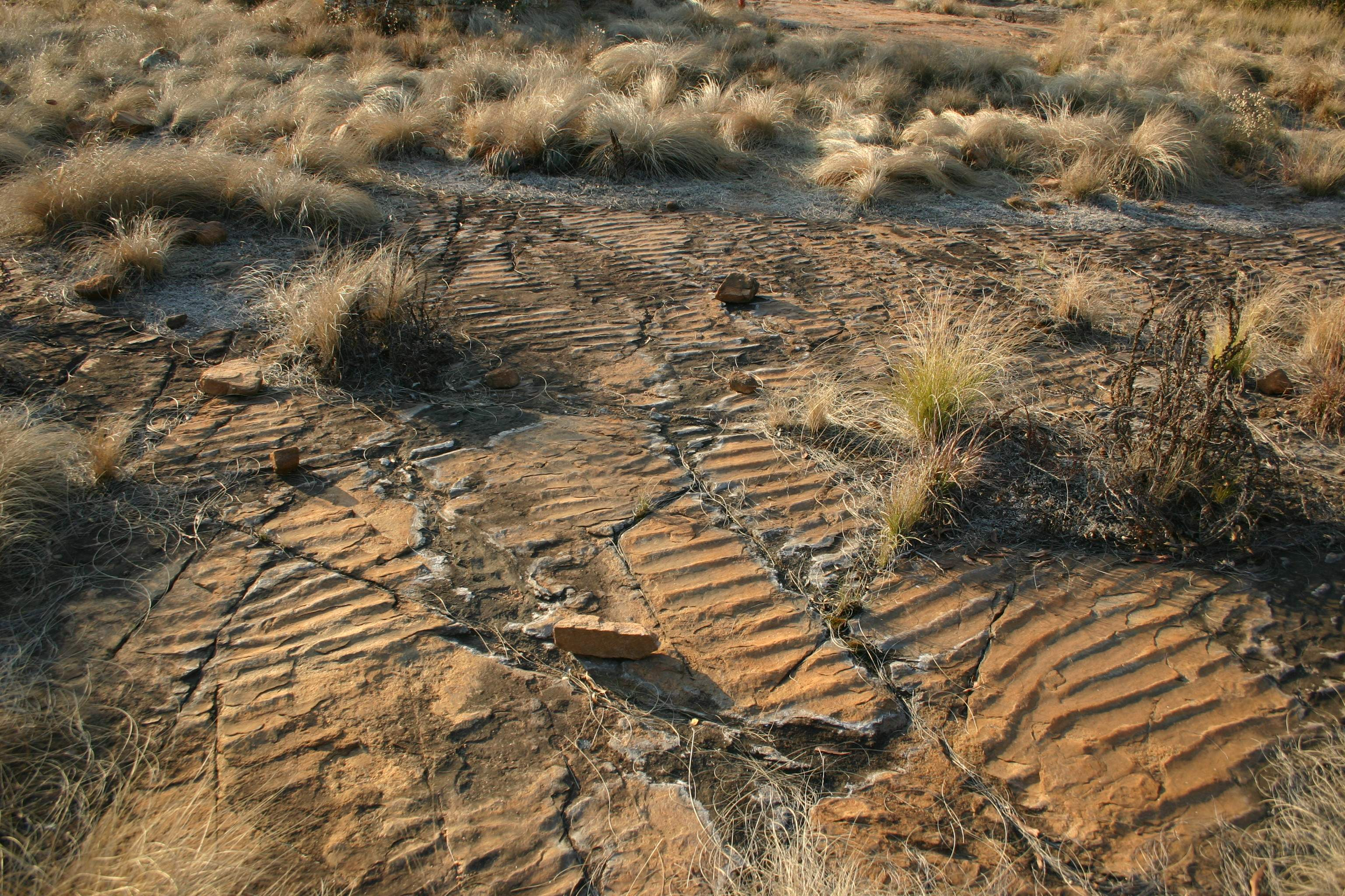 Magaliesberg dip slope (north-facing) showing fossil ripple marks. Grass-like plants in background are Coleochloa setifera while dead-looking shrublets are dormant Myrothamnus flabellifolius. Locality Hamerkop Kloof, Magaliesberg, South Africa